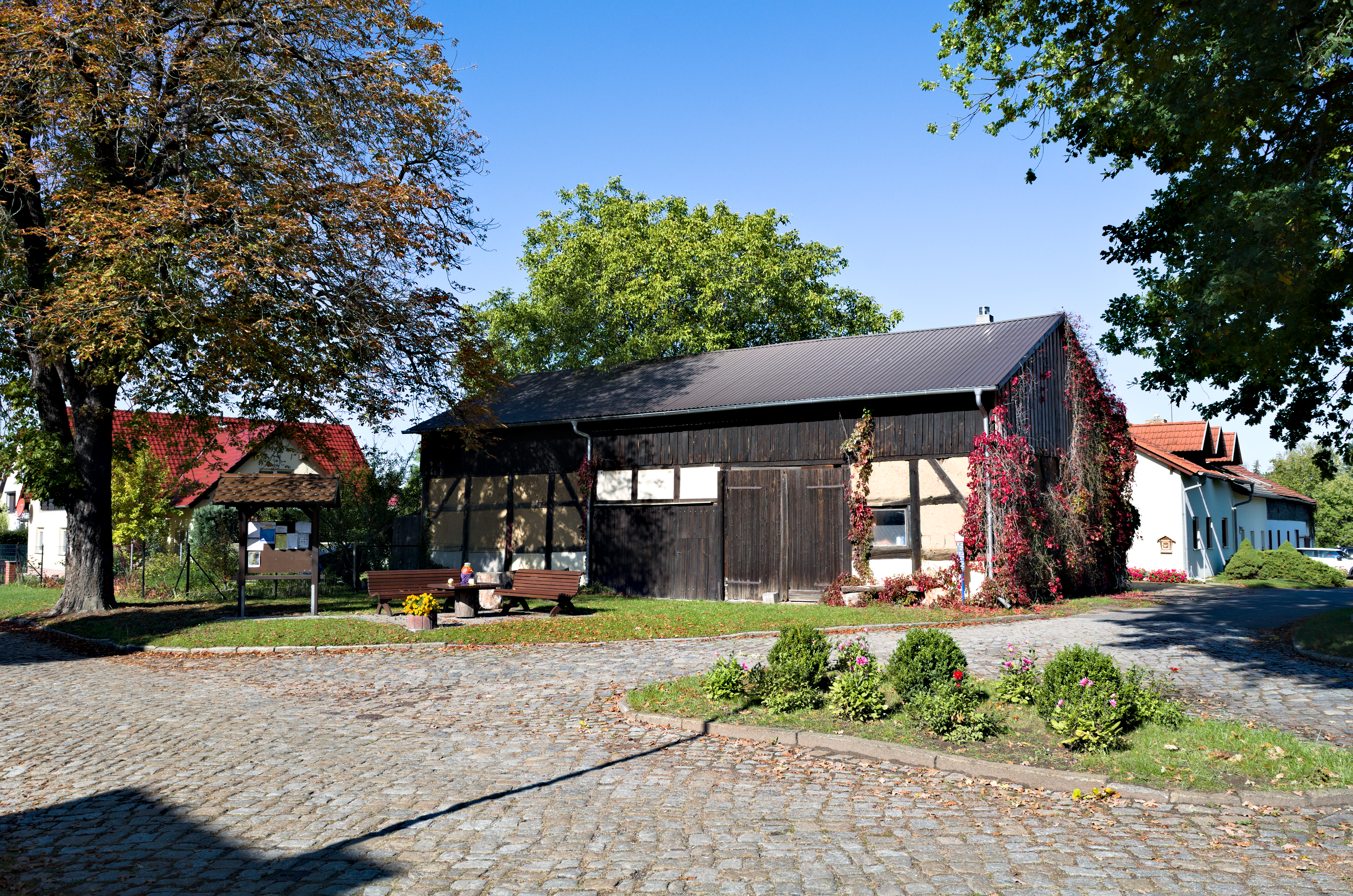 Village center of Klein Gaglow, street Am Denkmal.